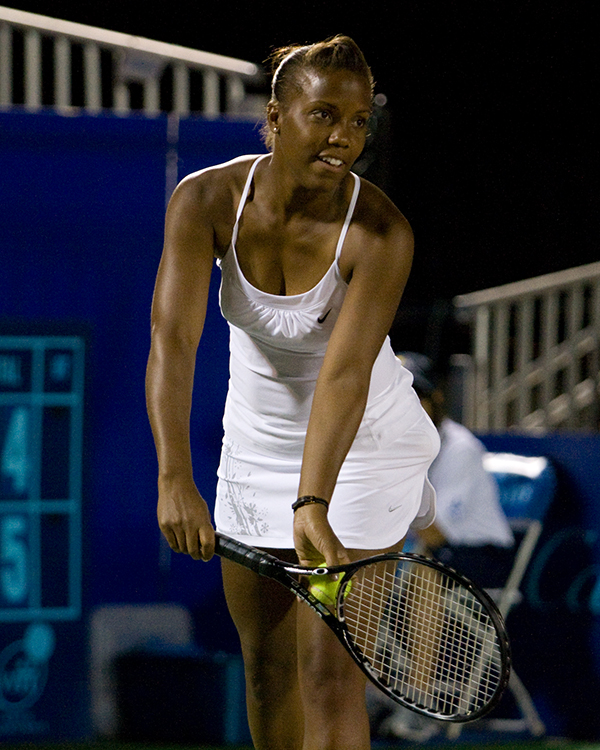 Mashona Washington playing for the Washington Kastles during a World Team Tennis match in Mamaroneck, NY on July 10, 2008. Camera: Canon EOS 400D (Rebel XTi), 10.10 Megapixels